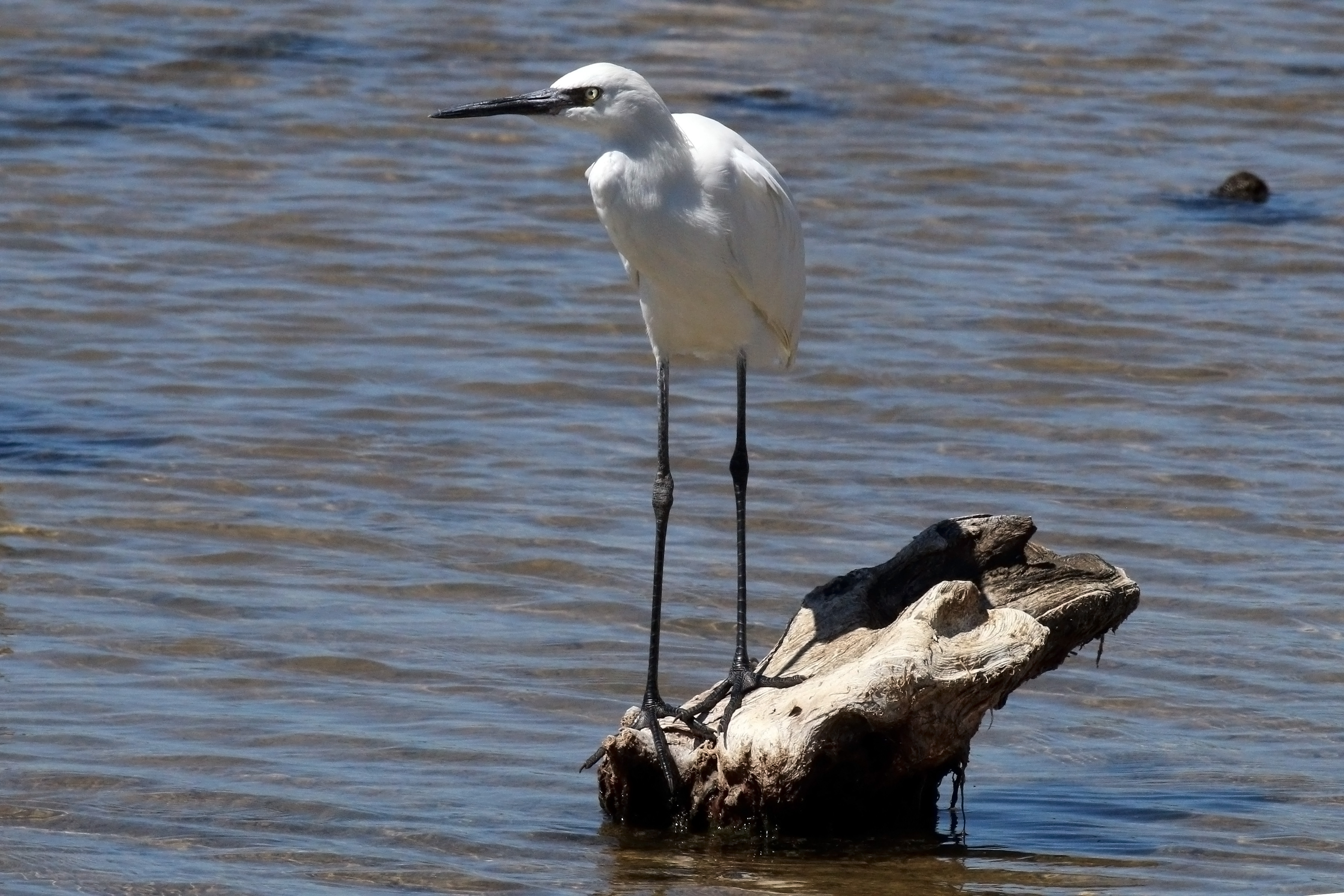 Little blue heron (Egretta caerulea) immature, Cuba